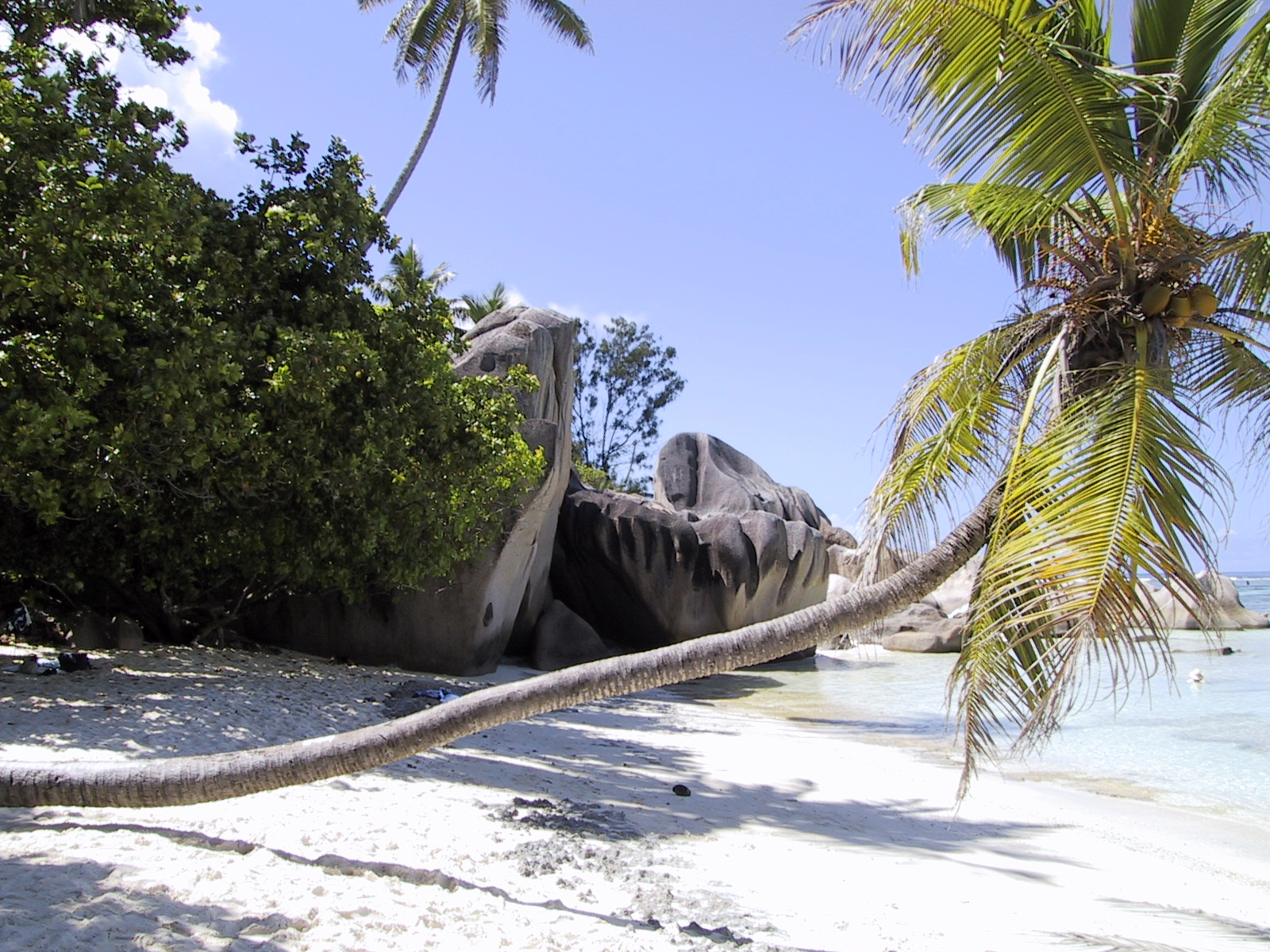 Sand beach with granite rocks in the Seychelles island Praslin